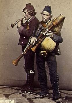 Giorgio Sommer (1834-1914), Zampogna (bagpipes) players. Hand-tinted photograph. Catalogue # 2796.